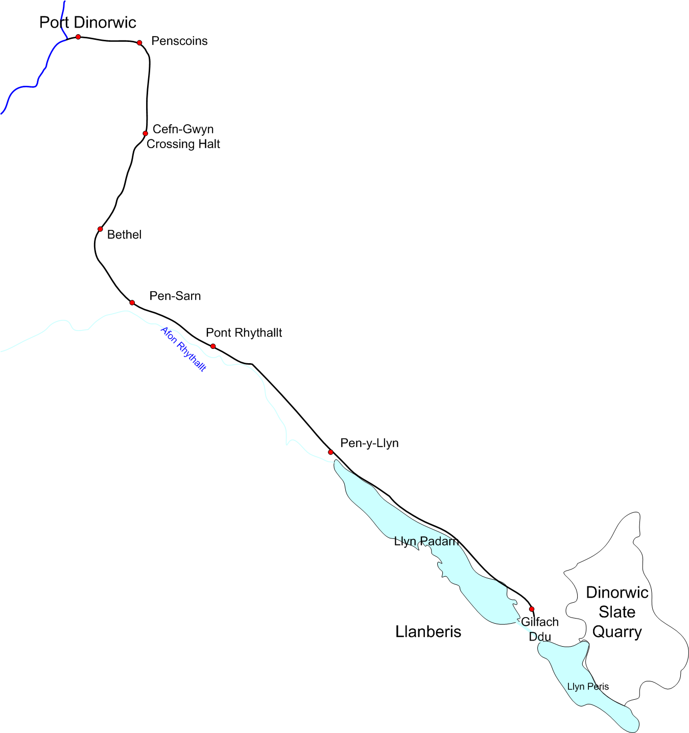 Map of the Padarn Railway Author: Dan Crow